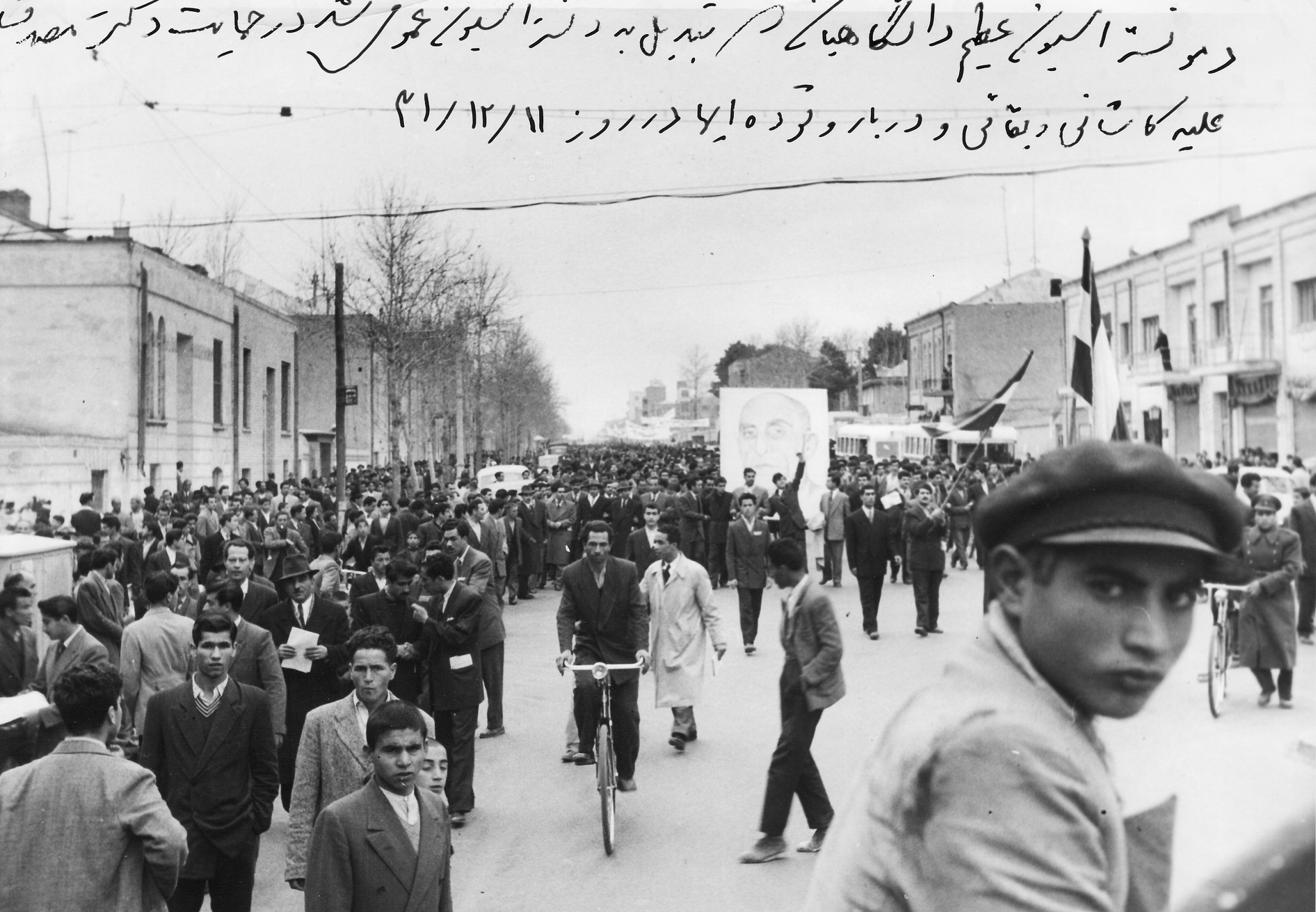 Pro Mossadeq demonstration